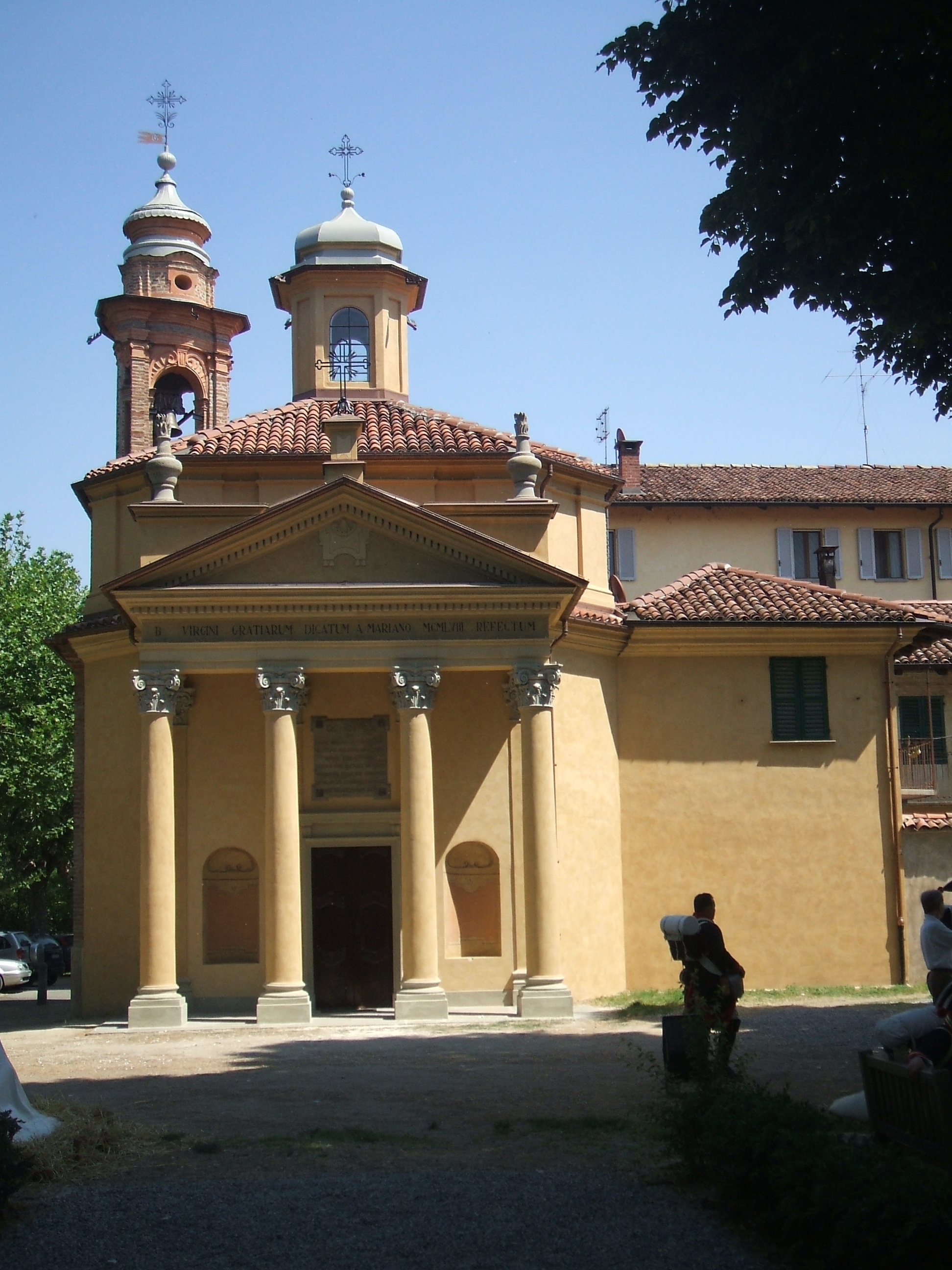 Chiesa in Cherasco